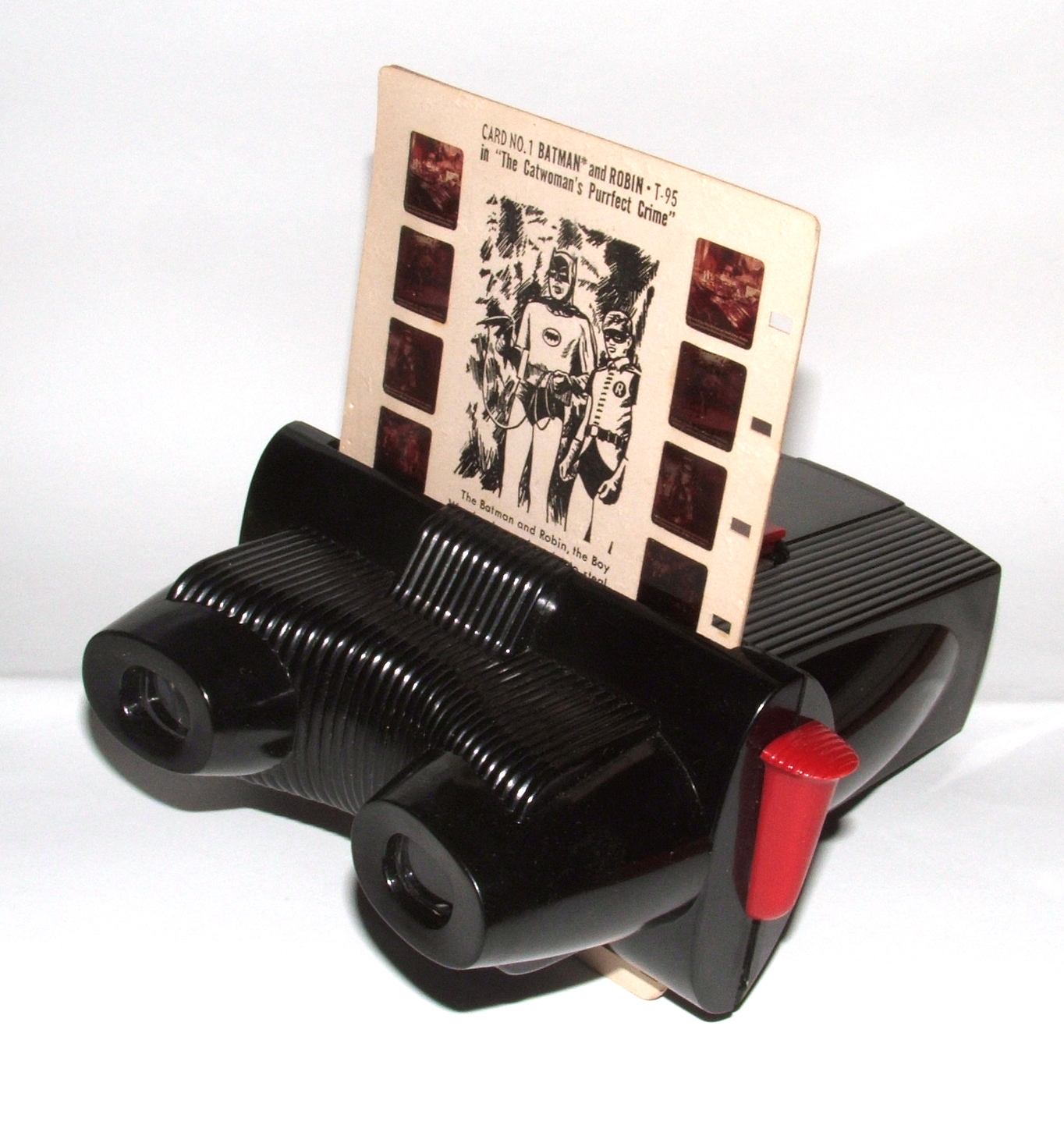 Tru-Vue 1957's bakelite stereoviewer